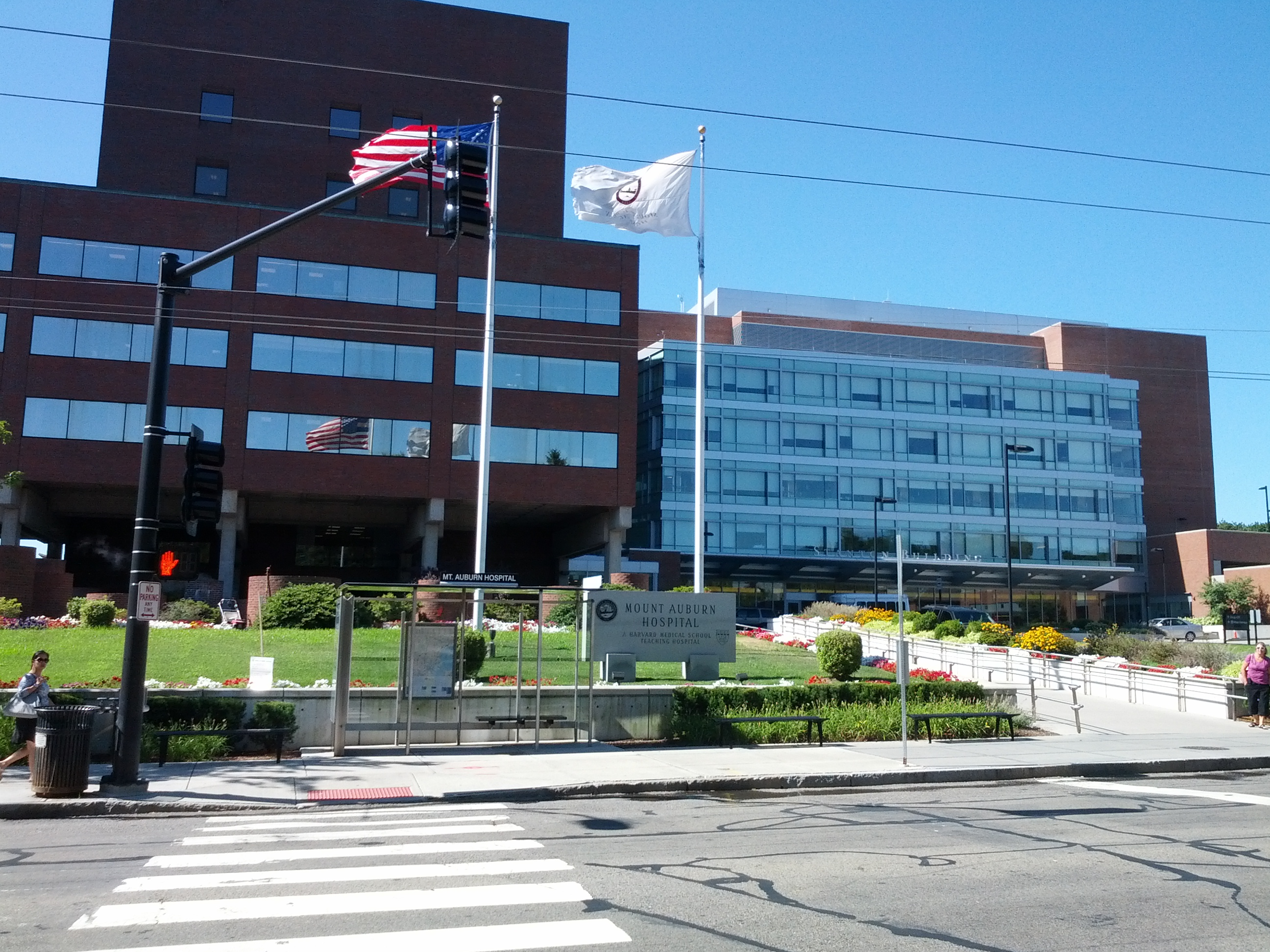 Main Entrance of Mount Auburn Hospital on Mt. Auburn Street, Cambridge, MA